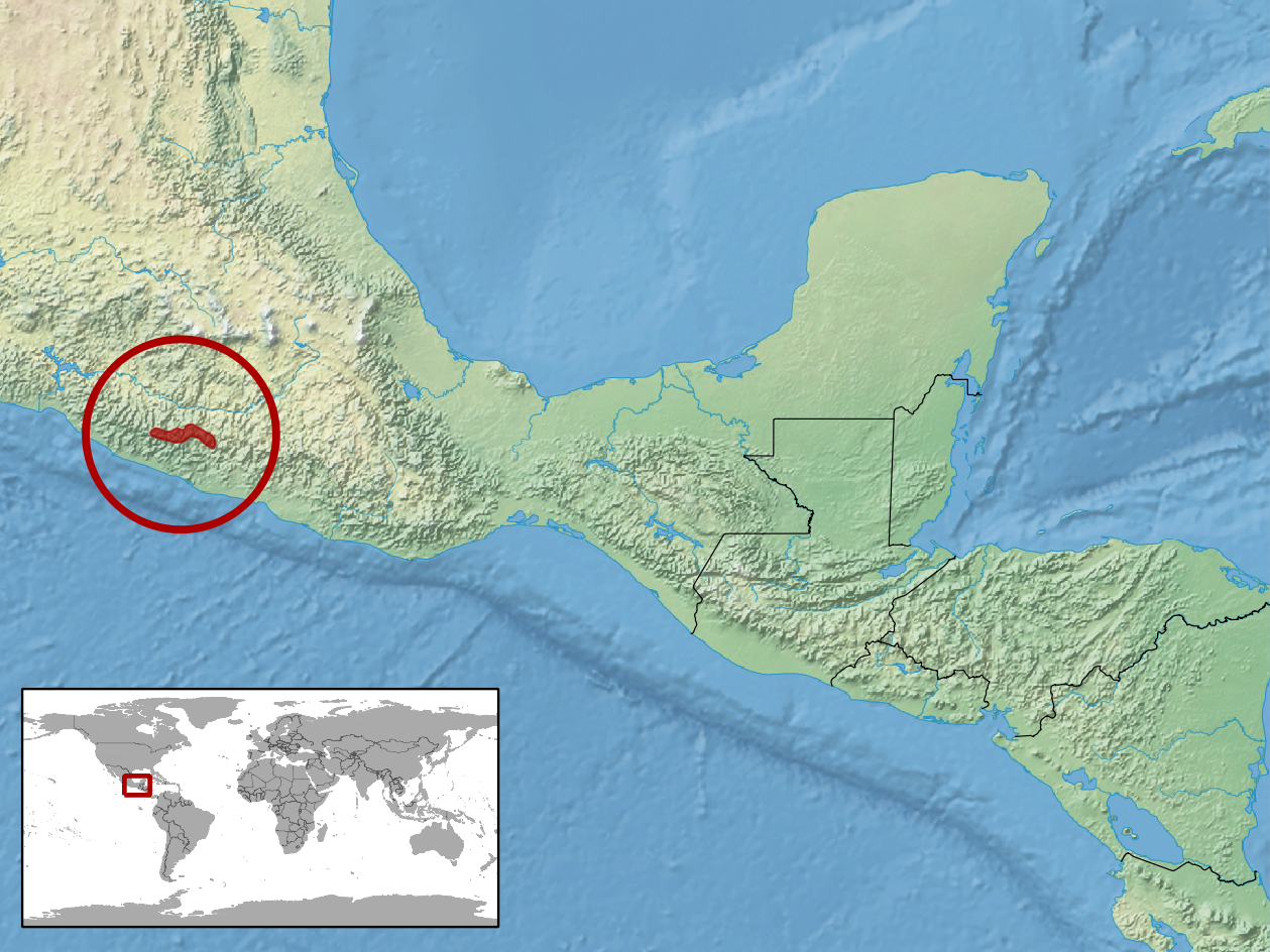 geographic distribution of Abronia martindelcampoi (Native: Mexico)